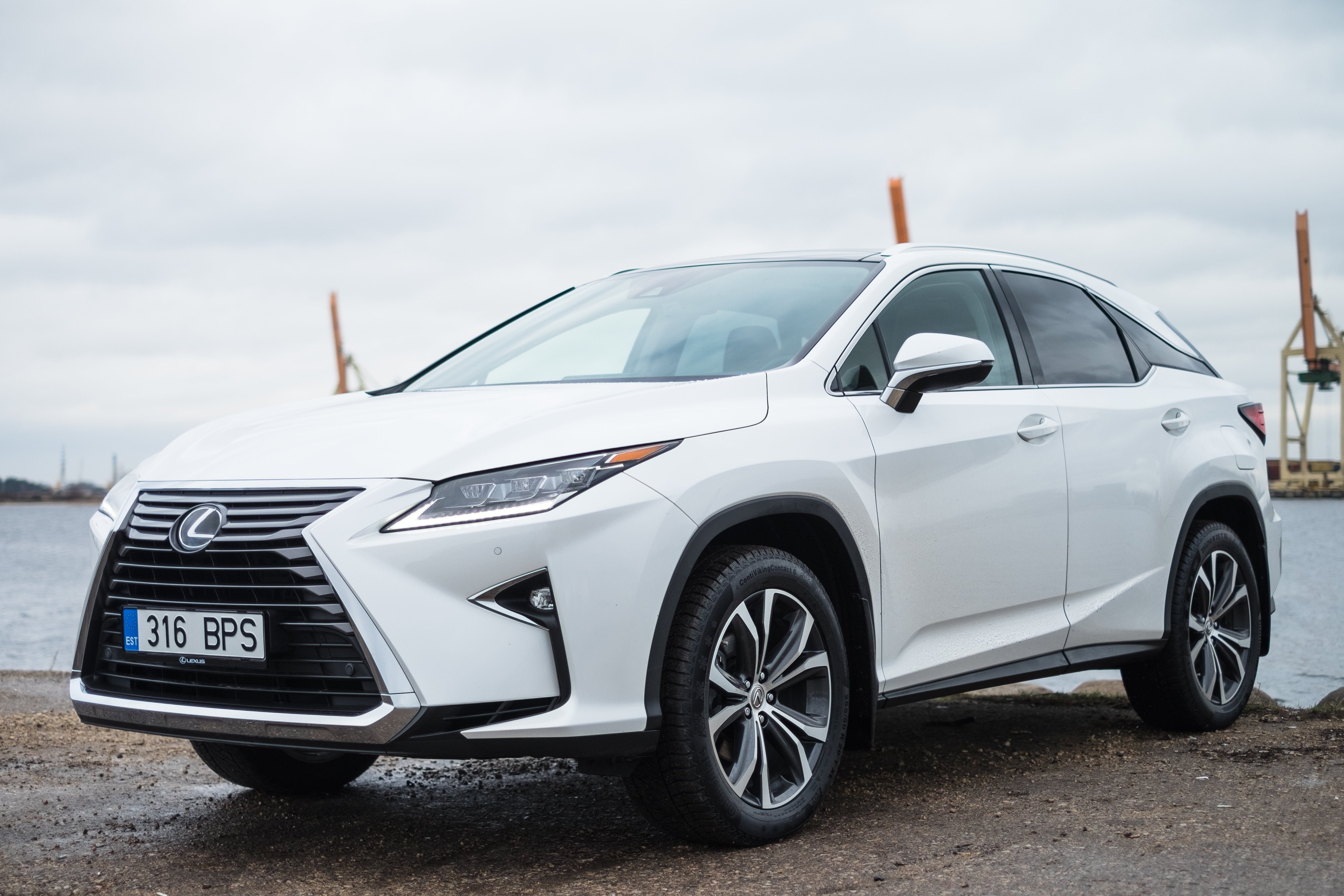 Lexus RX 200t 2016